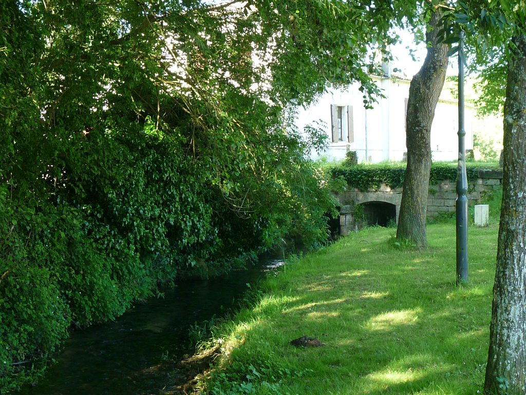 river Charraud at Torsac, Charente, France